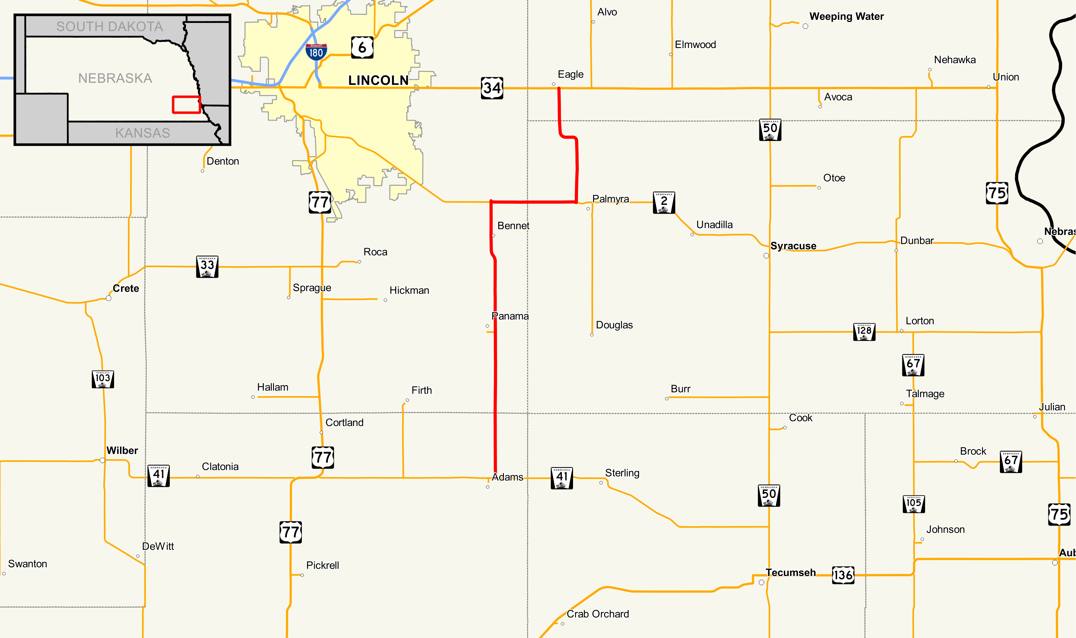 Map of Nebraska Highway 43 Data Sources: Nebraska Highways - - Dec 2016 Nebraska County Boundaries - - Dec 2016 Nebraska City Boundaries - - Dec 2016 This PNG graphic was created with QGIS